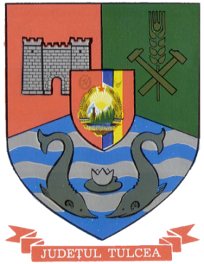 Communist coat of arms of Tulcea County, Socialist Republic of Romania.